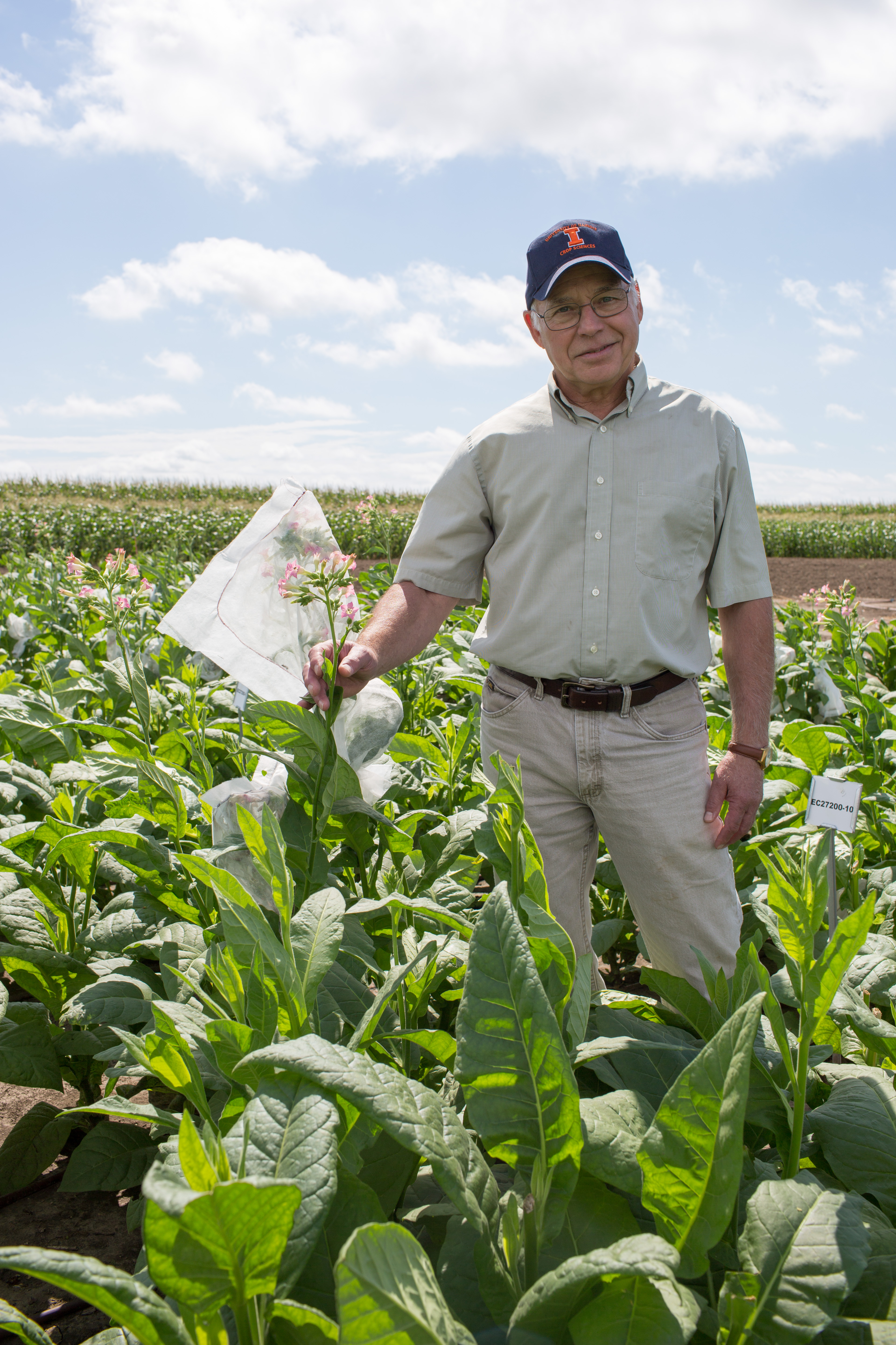 University of Illinois Robert Emerson Professor of Plant Biology and Crop Sciences Donald Ort is pictured in a South Farms research field trial of tobacco, a model crop used to identify technologies that can boost the yield of staple food crops such as cassava, cowpea, maize, soybean, and rice.